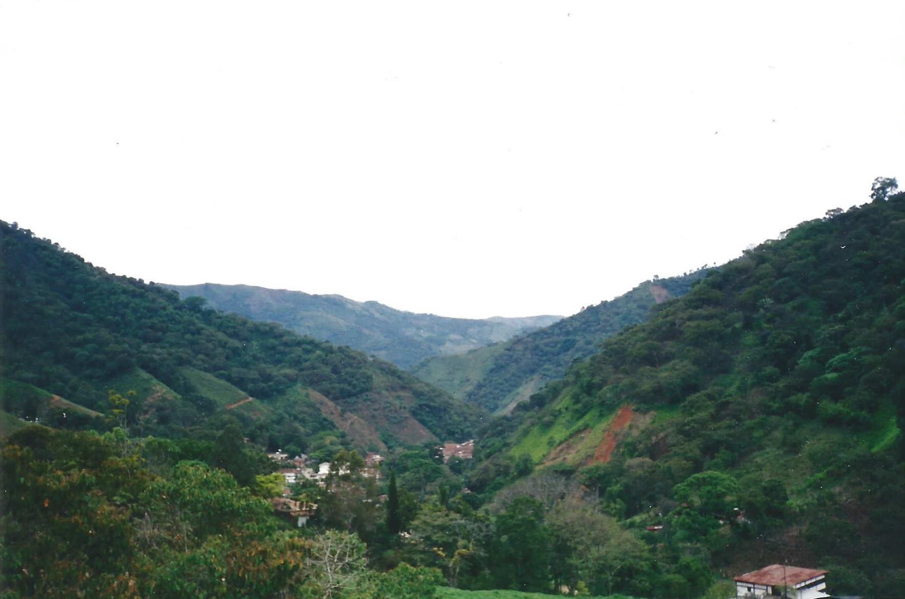 Mountains surrounding Salgar